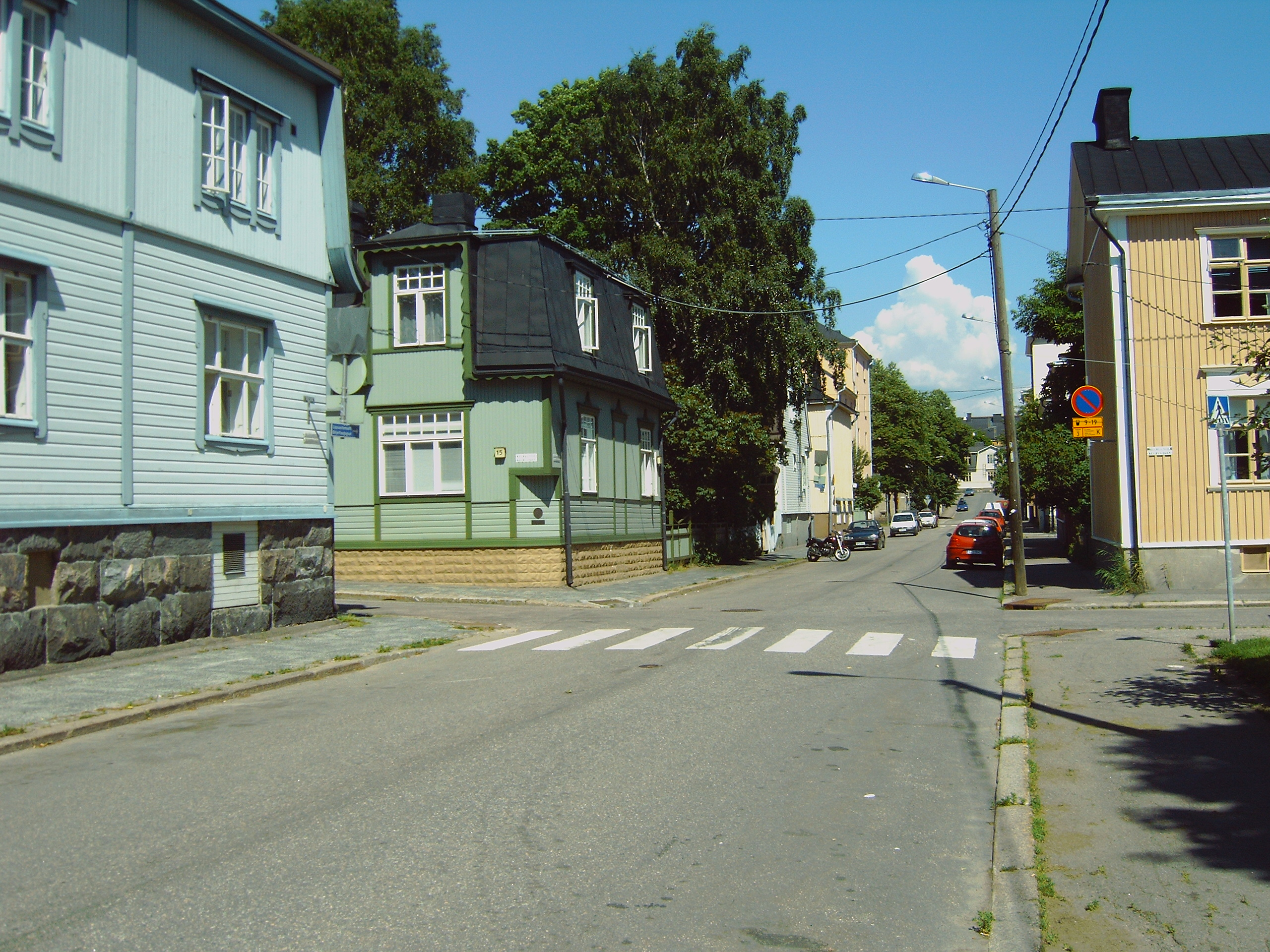 Vallila, Helsinki, Finland Photo made by me, Hyperboreios